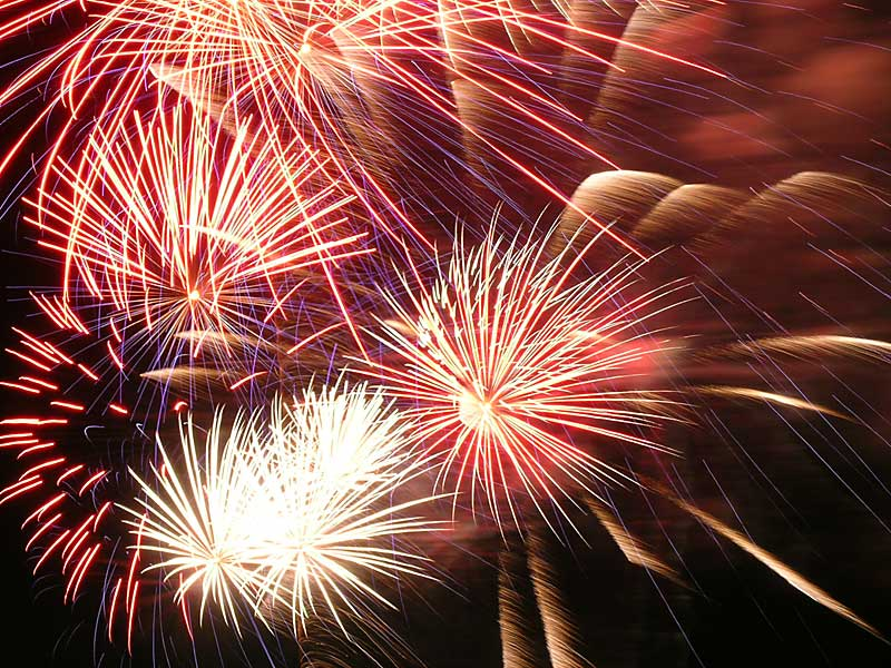 This came from New Years Eve 2004 into 2005, it was taken in the borough of Appleton/Dudlows Green, Warrington, UK with a digital camera.